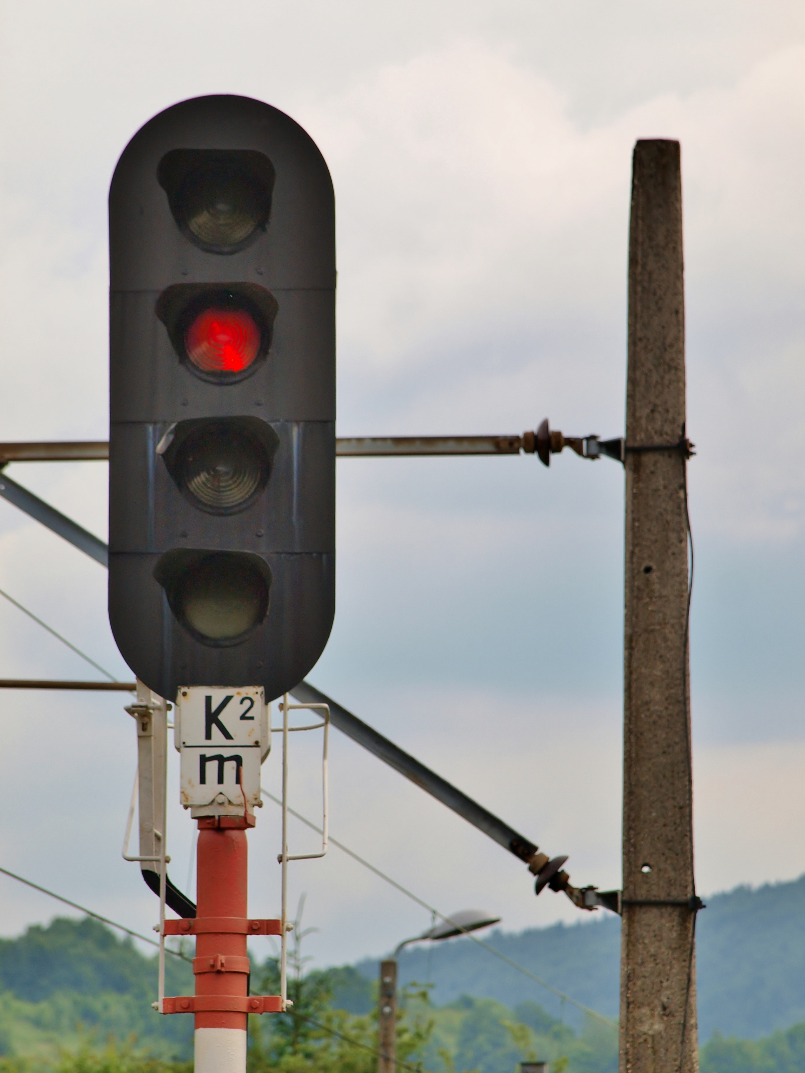 Maków Podhalański train station - four chamber exit semaphore from the track No. 2 "to the curve"